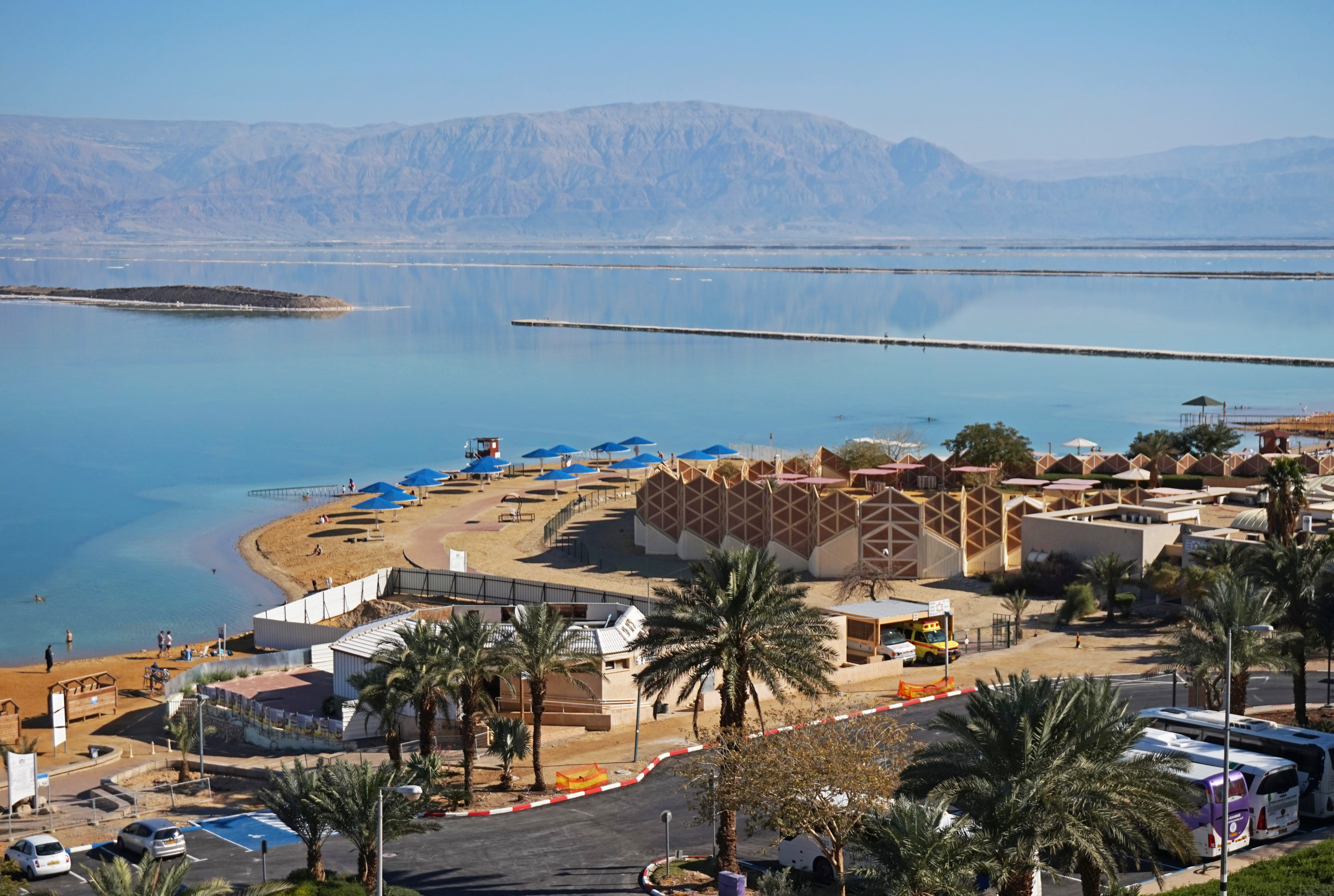 Ein Bokek and Dead Sea.This photograph was taken with a Sony ILCE-5000